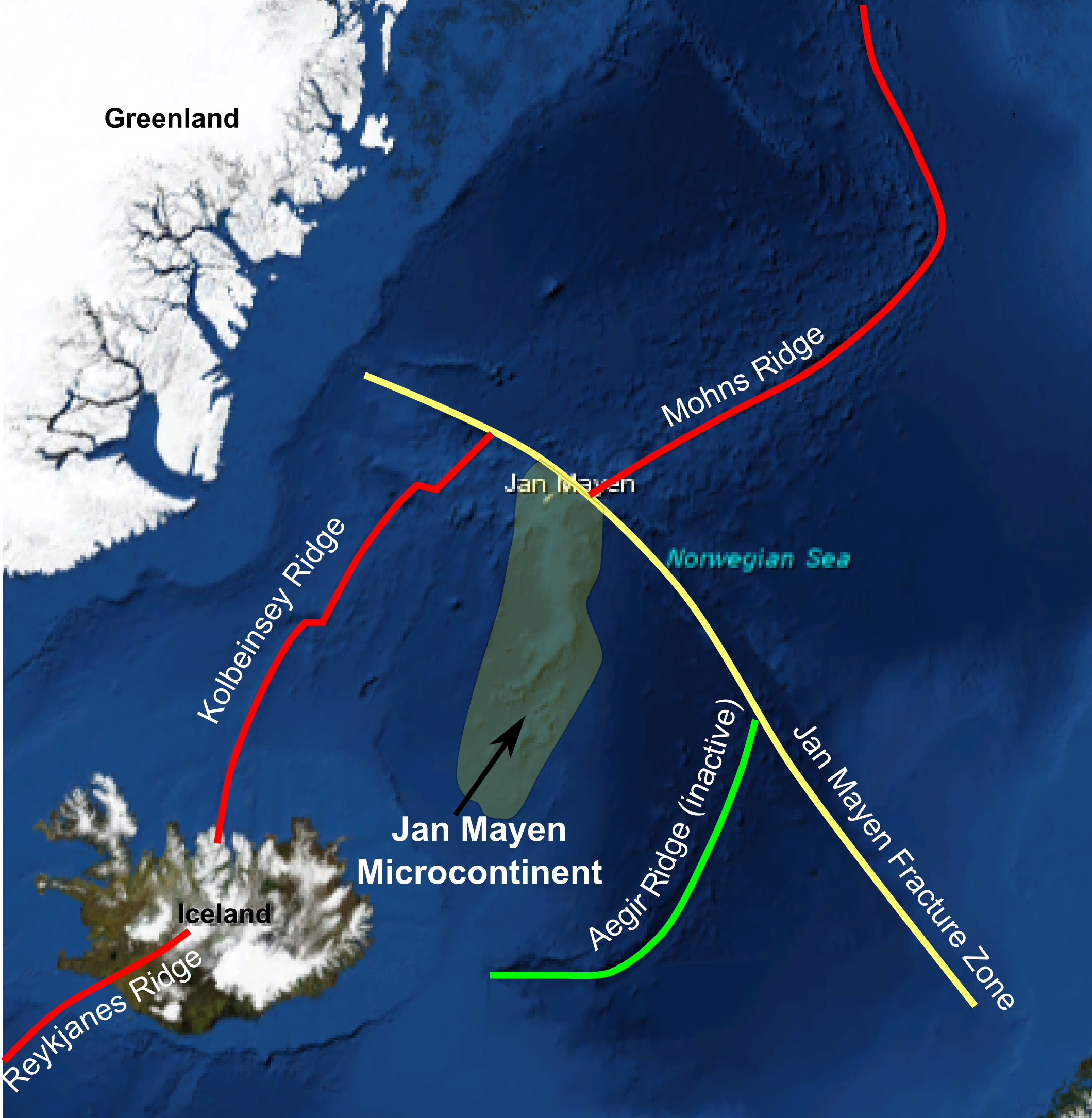 Location map for Jan Mayen Microcontinent using screenshot from NASA's WorldWind software, with plate boundaries added. Active spreading centres in red, inactive in yellow.